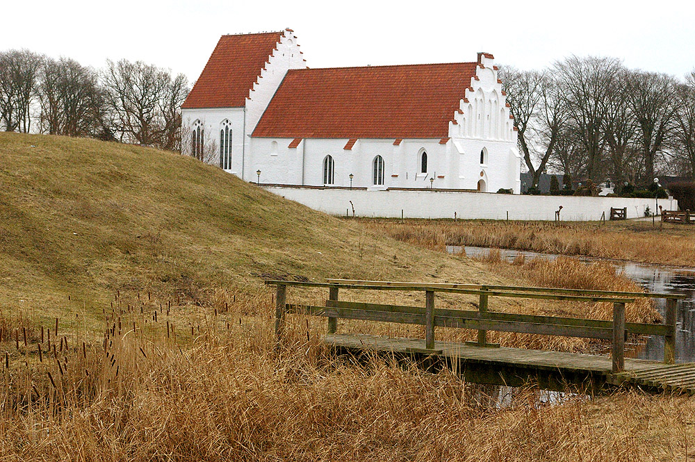 Snanor medieval church and castle ruin, Skania, Sweden.